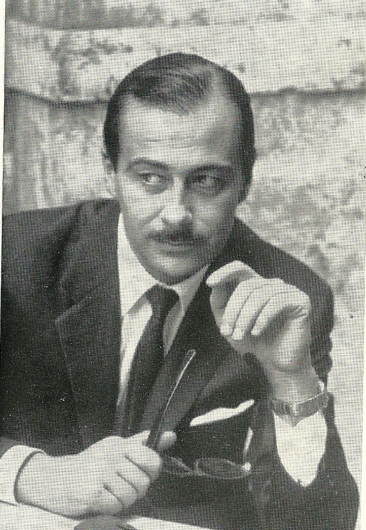 photo from Depliant teatrale (1961)